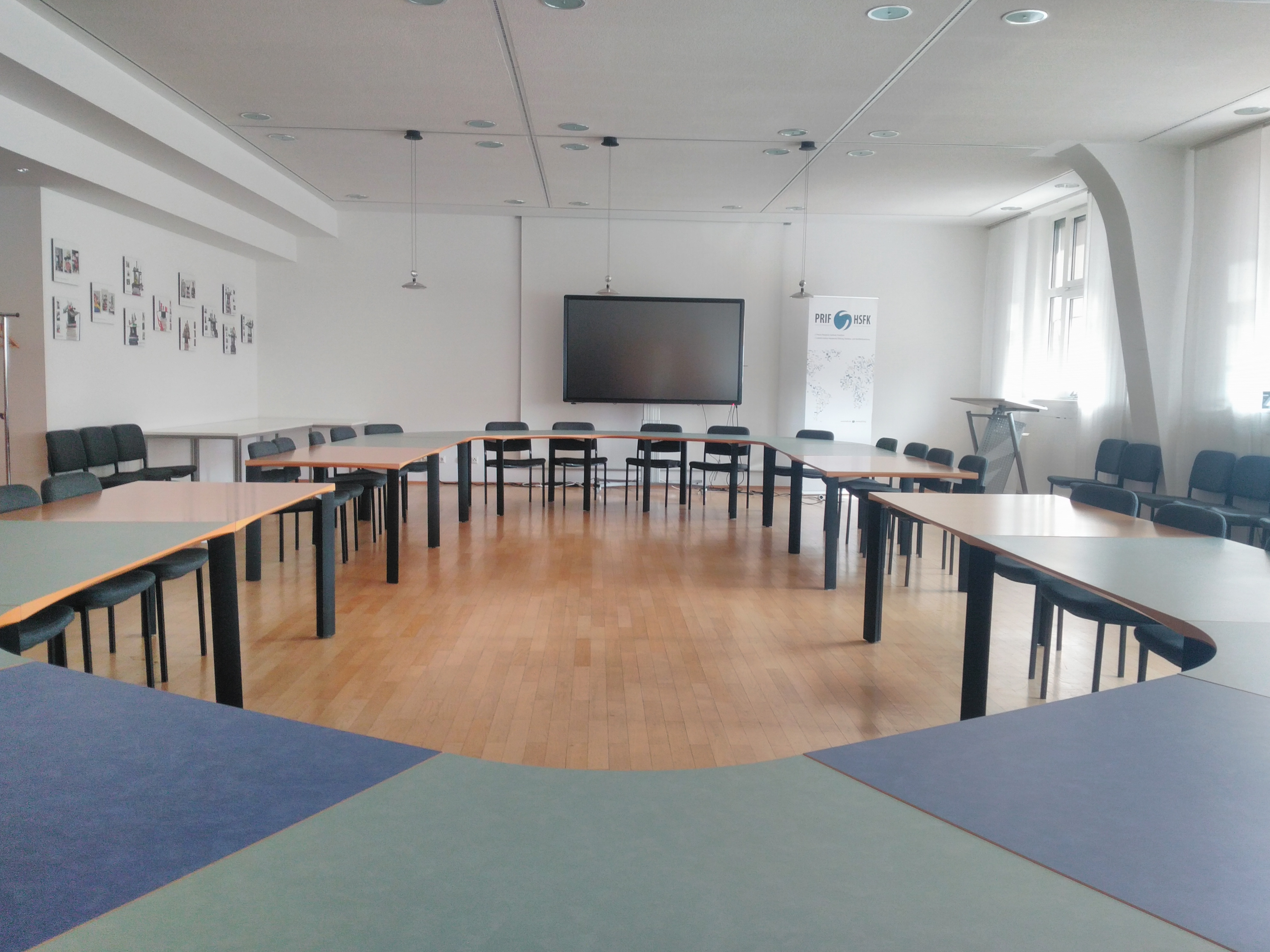 Conference room